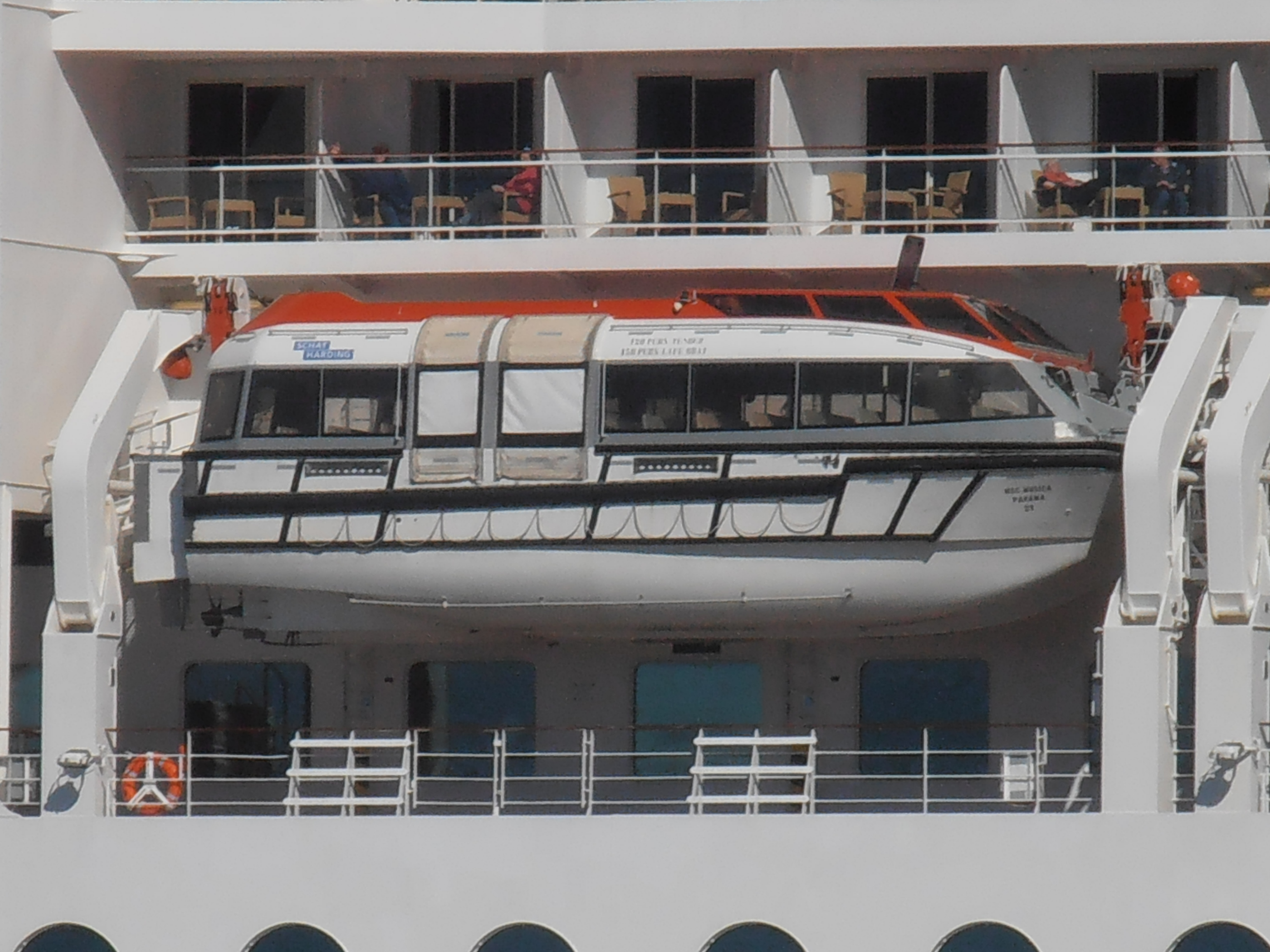 MSC Musica Lifeboat Tallinn 1 May 2013